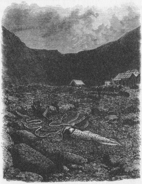 Giant squid that washed ashore on St. Paul Island in 1875